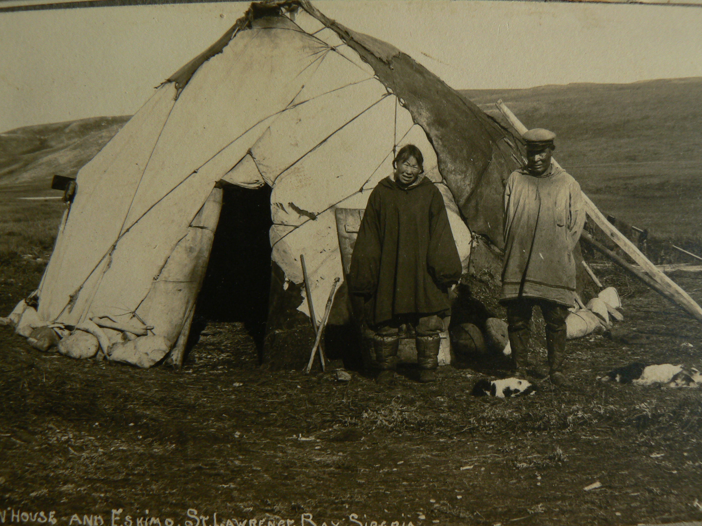 Skinhouse and Inuit, St.Lawrence Bay, Siberia. Foto by Lomen Bros, Nome, 1922